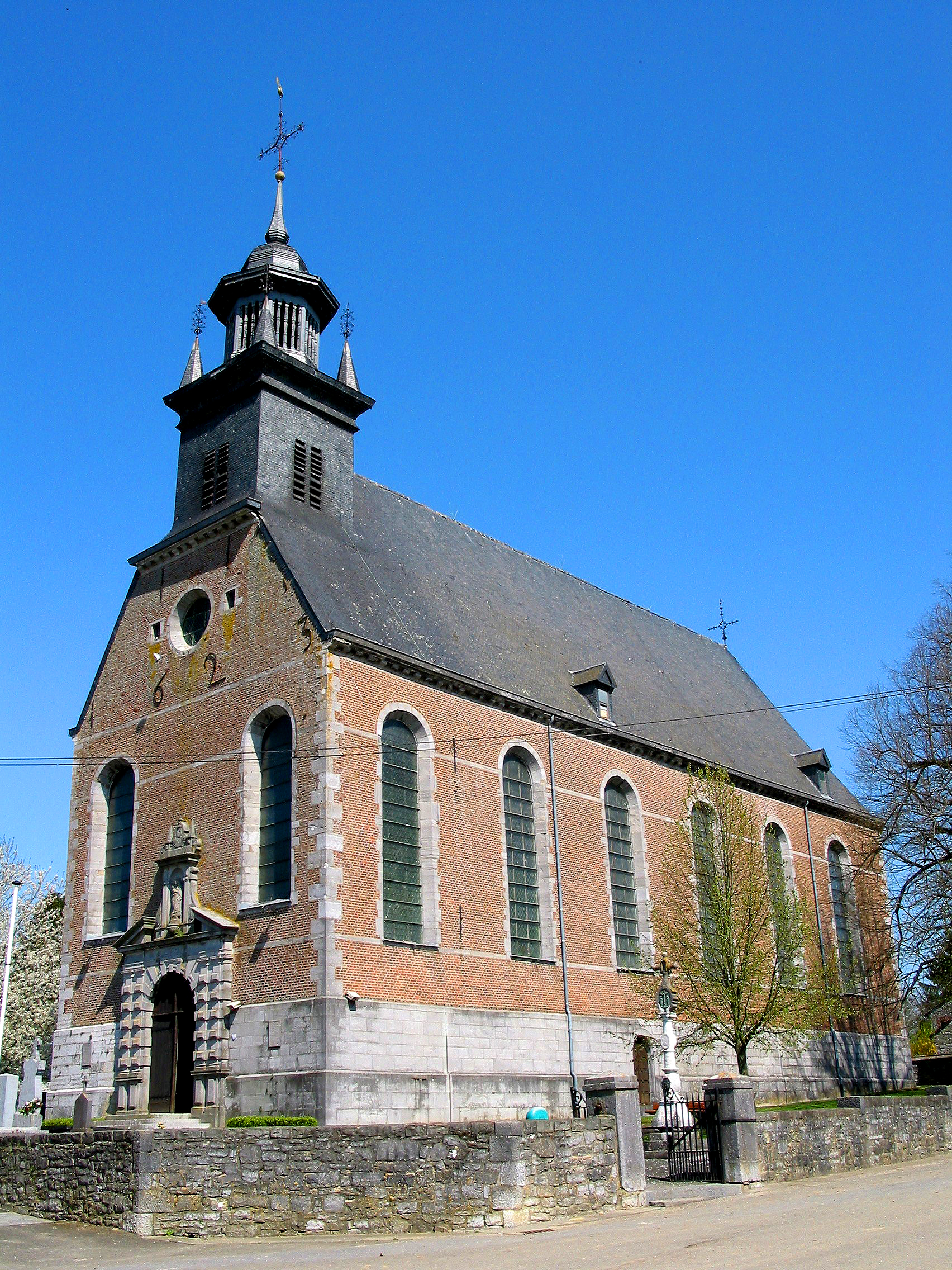 Foy-Notre-Dame (Belgium), the Nativity of Our-lady church (1623).